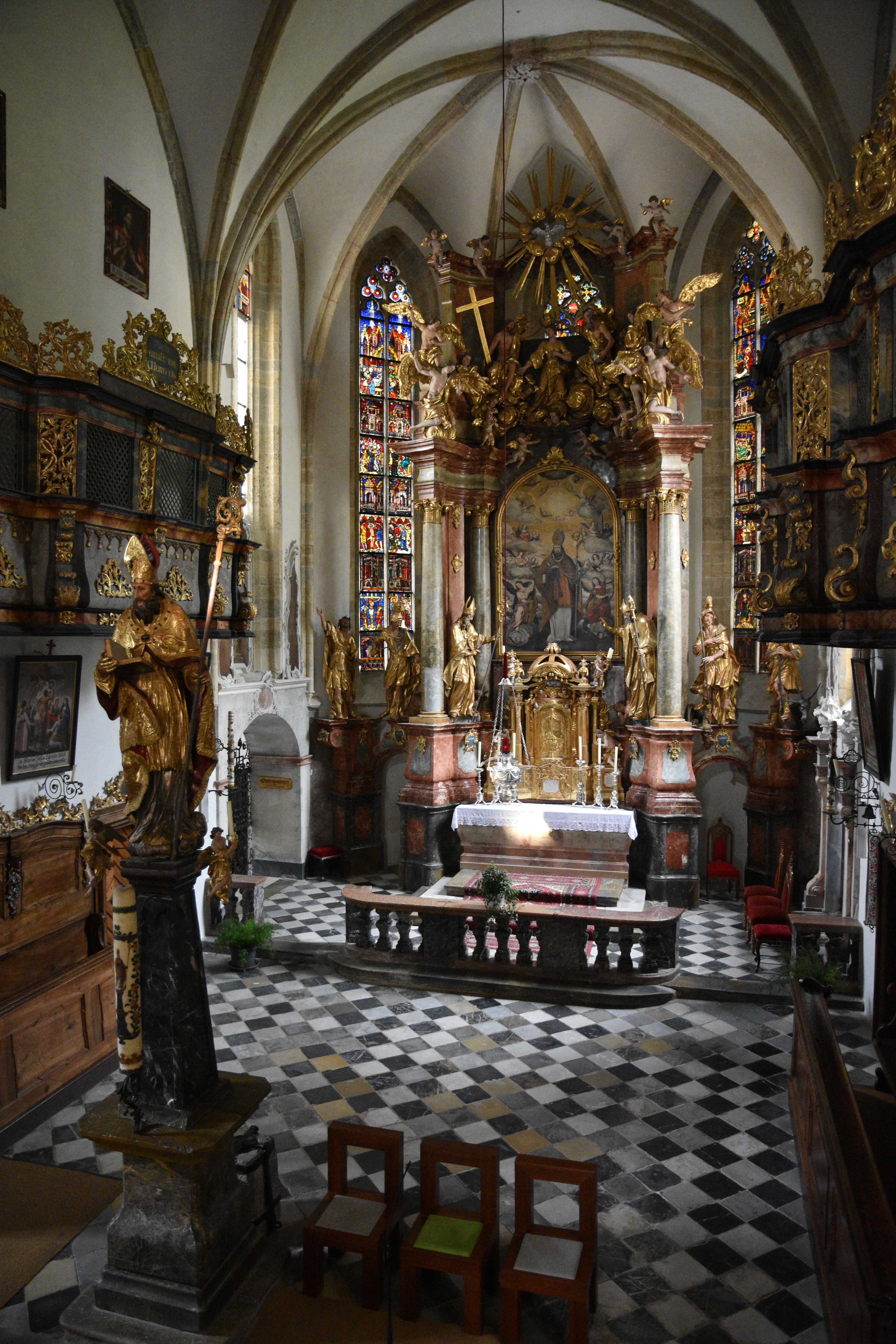 Church Pfarrkirche Sankt Erhard in der Breitenau - Interior